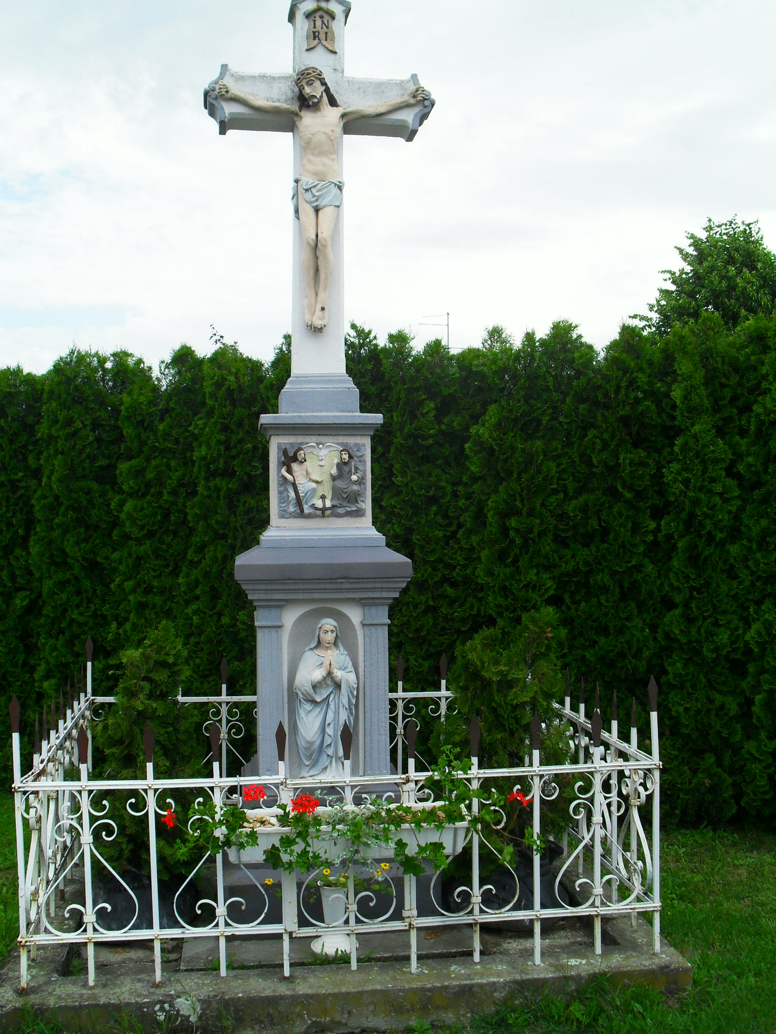 Crucifix with Kajkavian (kajkavski) inscription from 1835 in Vrhovljan, Međimurje Croatia (1)